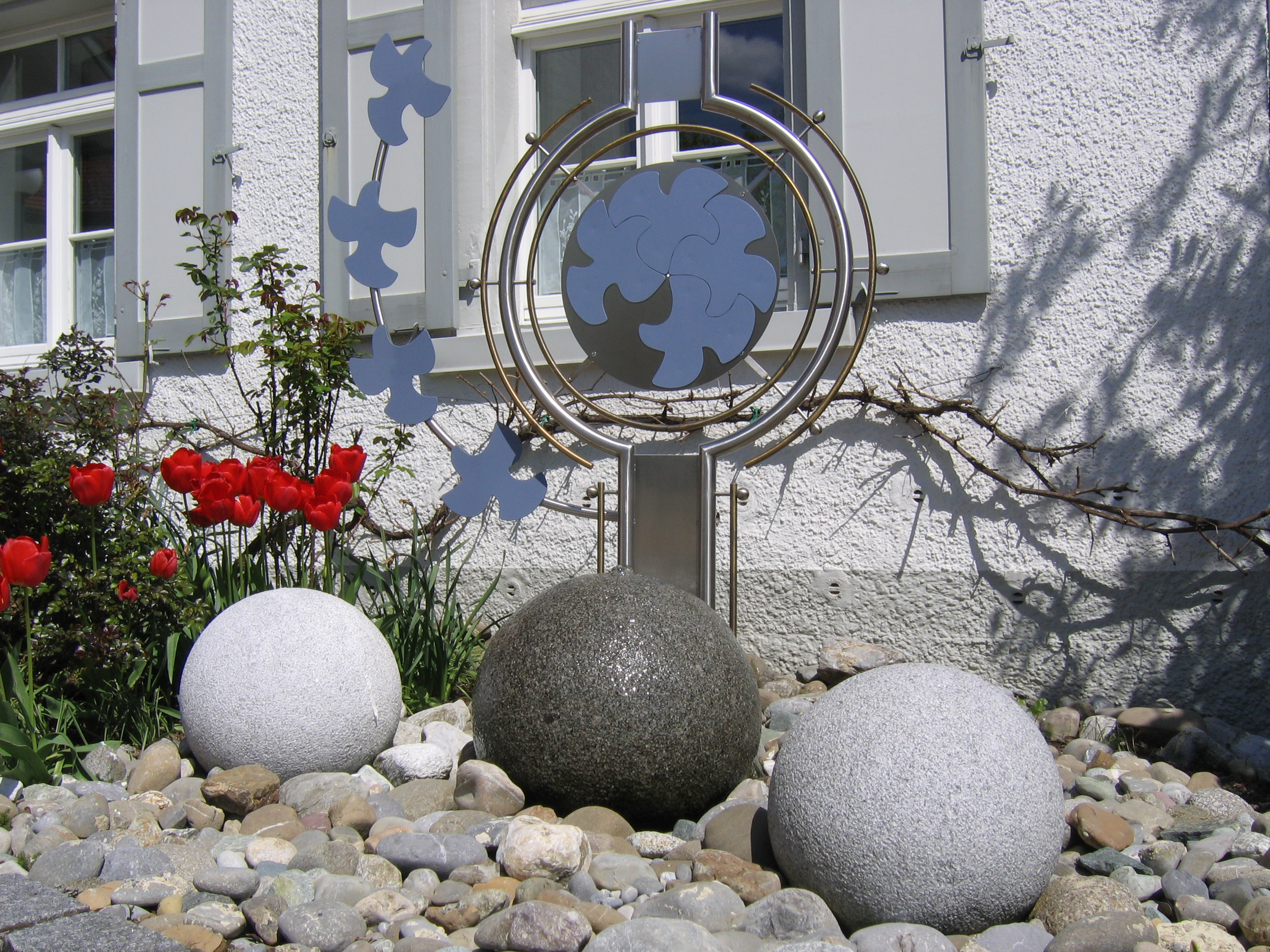 Germany - Baden-Württemberg - Bodenseekreis - Neukirch: fountain in front of the church